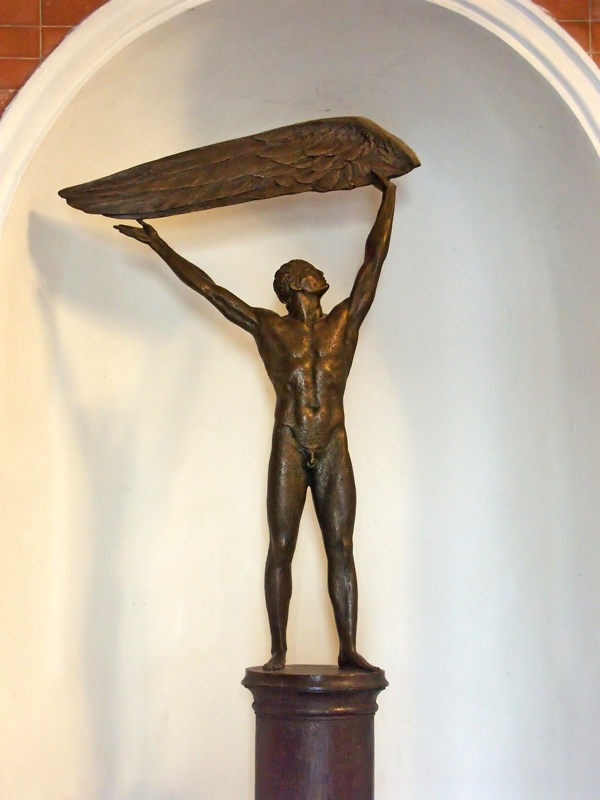 Evgeny Kolchev's Icarus's bronze sculpture. It is located at the Minsk movie theater "Victory".